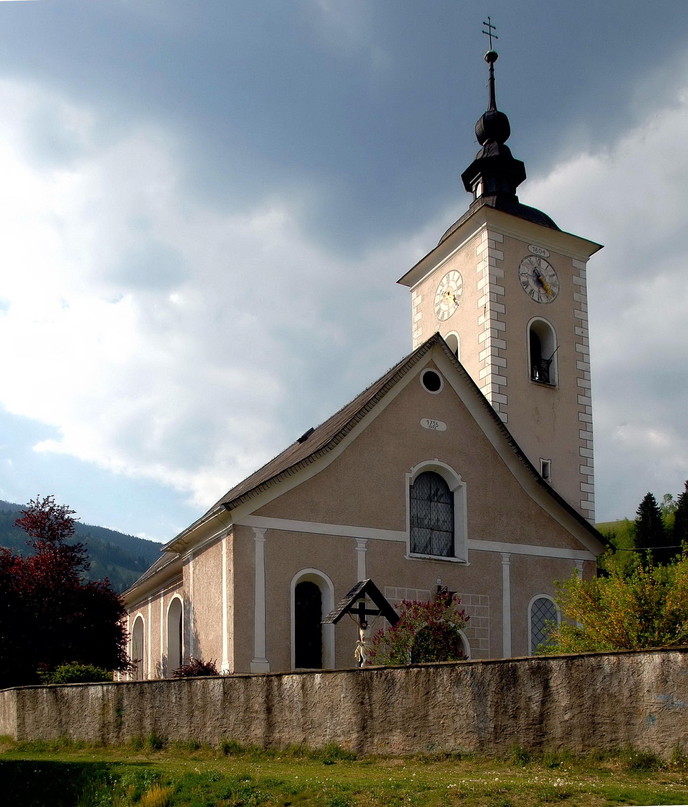 Parish church Saint Nicholas on Landstrasse, municipality Radenthein, district Spittal an der Drau, Carinthia, Austria, EU